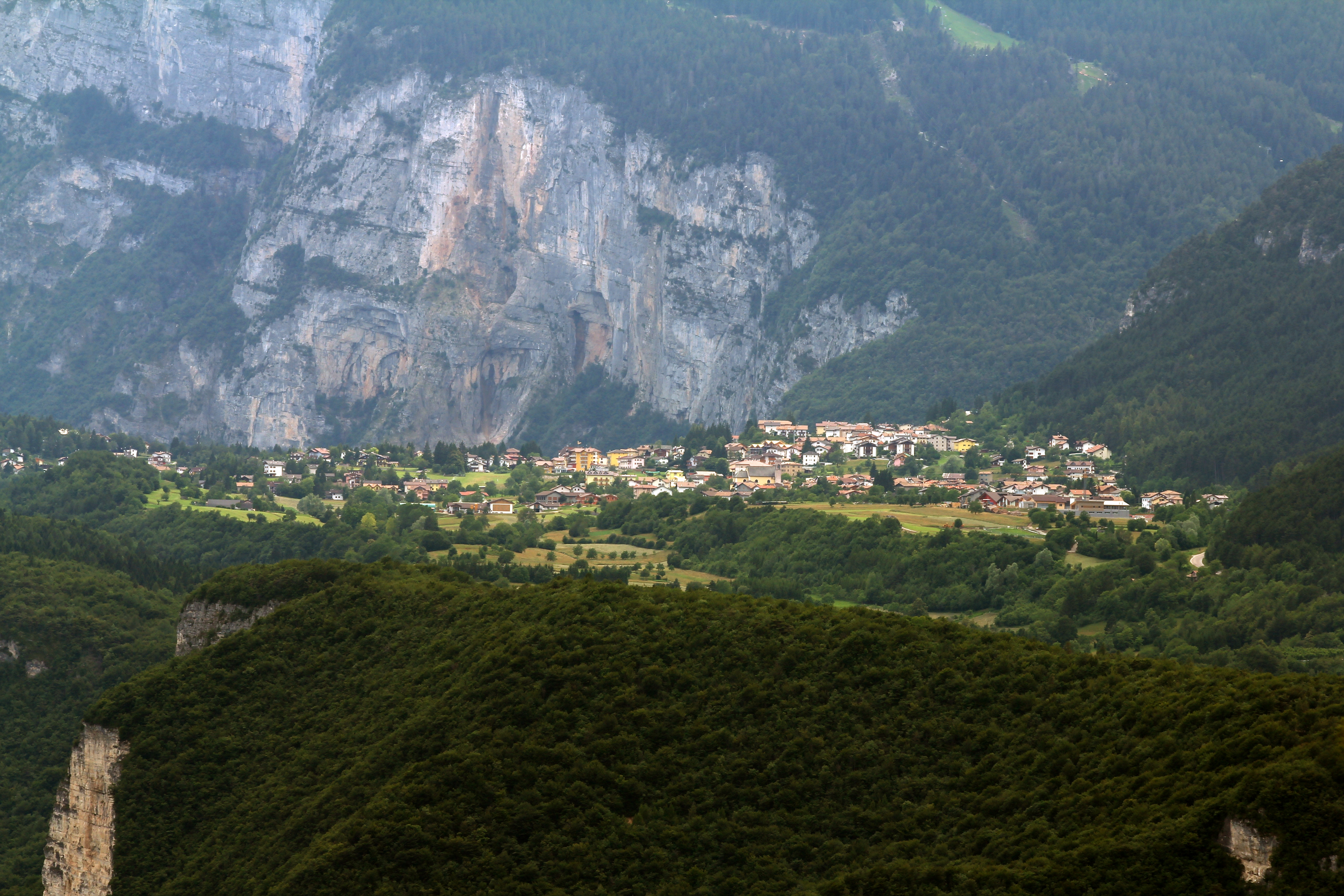 Fai della Paganella (Italy): panoramic view from the upper station of the Mezzocorona cableway.